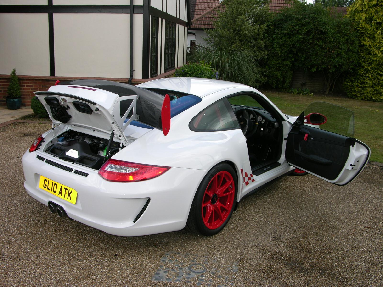 2010 Porsche 997 GT3 RS 3.8 with opened drivers door and engine bonnet.